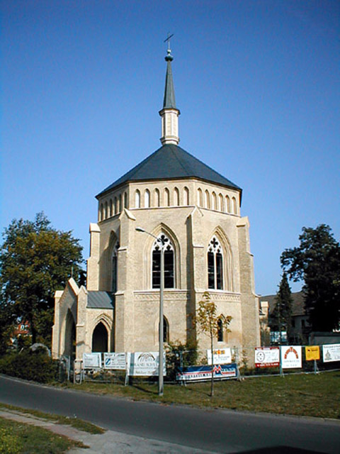 Babelsberg Neuendorfer church.